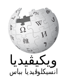 Wikipedia Banjar logo